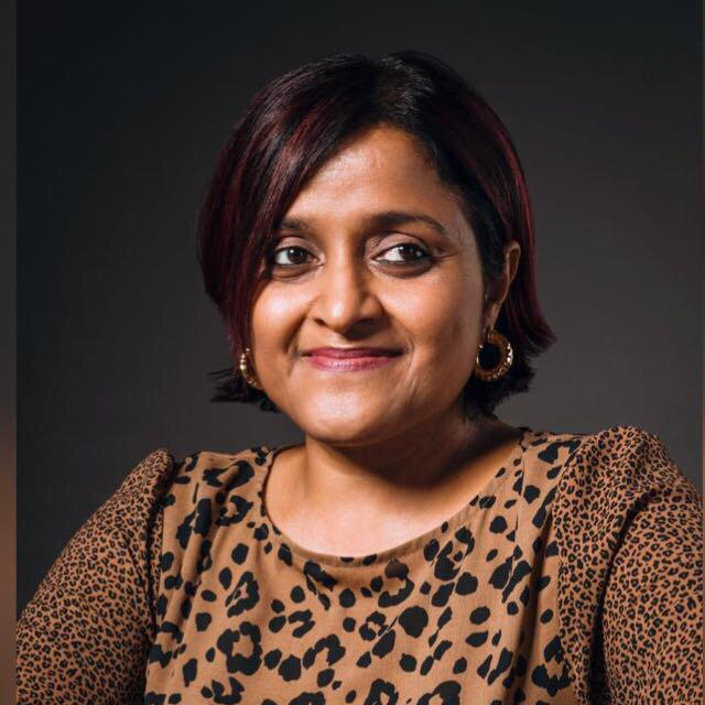 Former Foreign Minister of Maldives